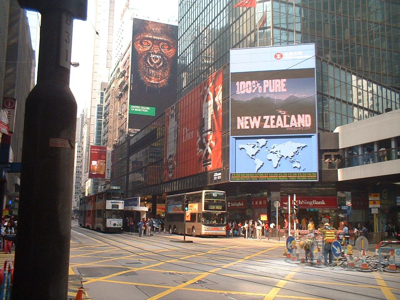 World-wide House, a property owned by the MTR Corporation Limited. One of Hong Kong many skyways can be seen on the right.